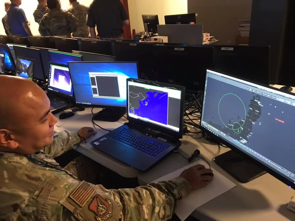 MSgt "Bamboo Garcia", 623 ACS Superintendent, perfoming first system checkout on new TORCC system